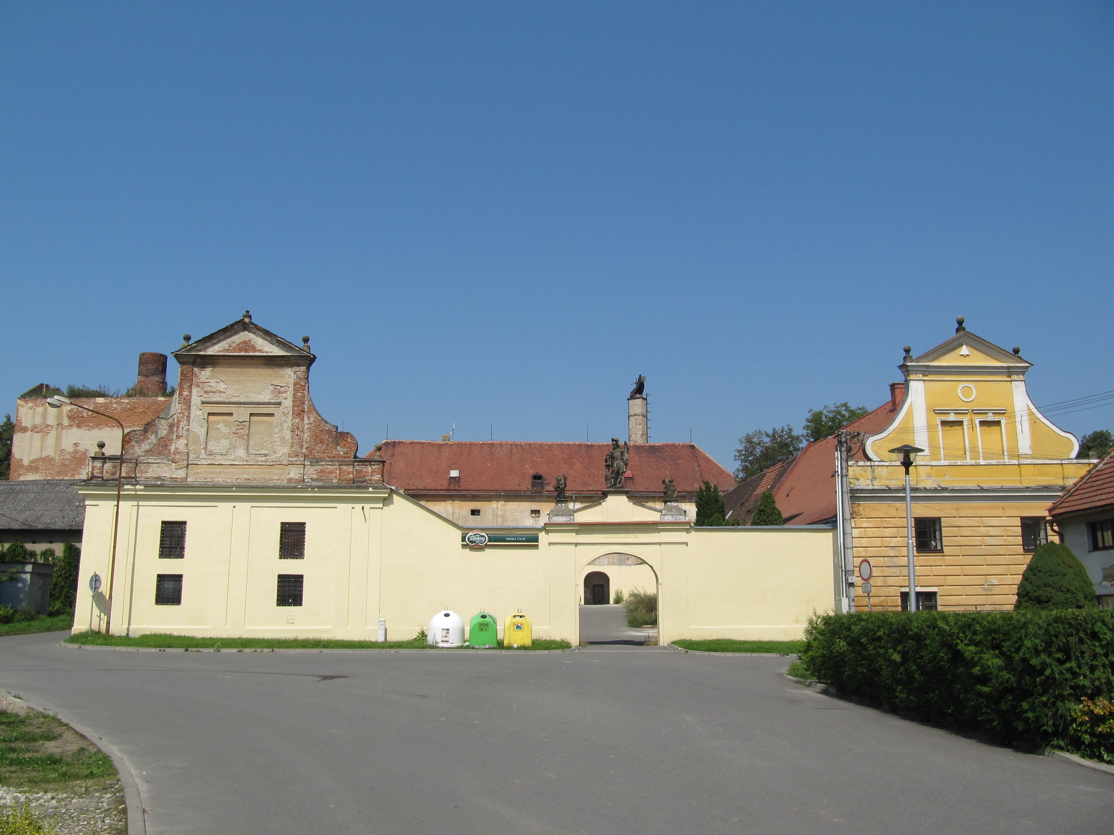 Kokory, Czech Republic, Přerov District. Former brewery from 1761, statue of St. Florian above the entrance. This photograph was taken within the scope of the third year of the 'Czech Municipalities Photographs' grant.